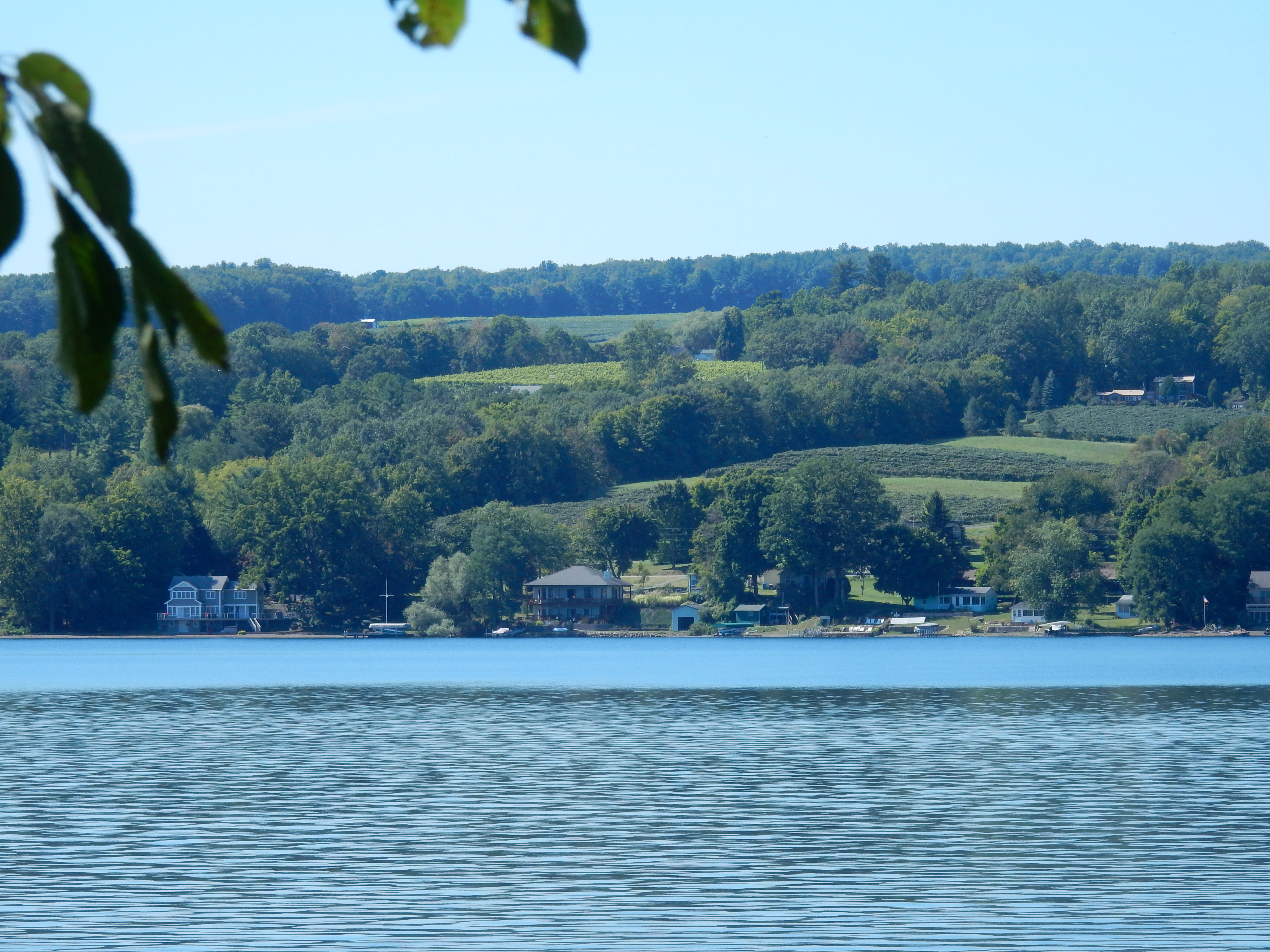 Keuka Lake from Keuka Lake State Park. Looking west.